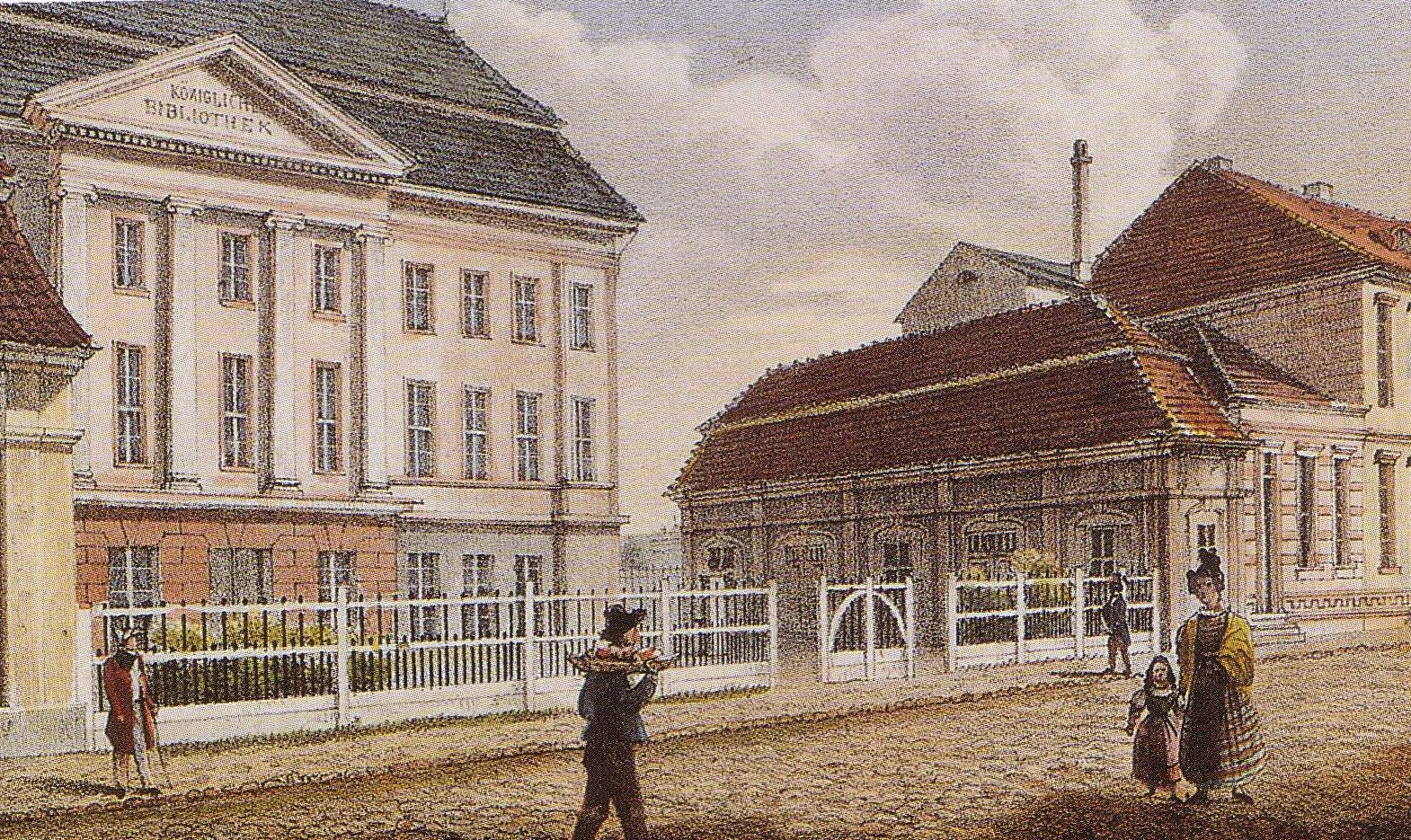 pen and ink drawing of the royal library in Königsberg